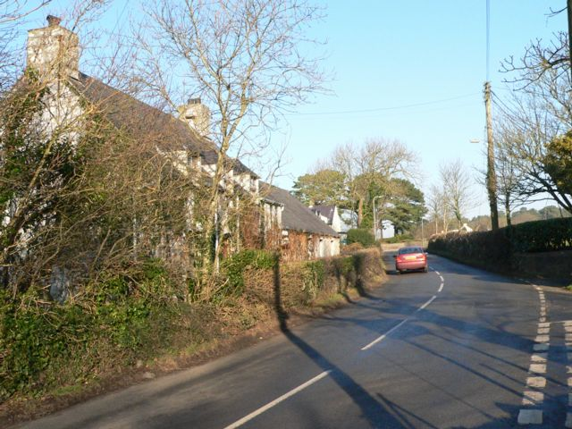 Bethel, Anglesey. A view (north) of the B4422 as it enters Bethel.